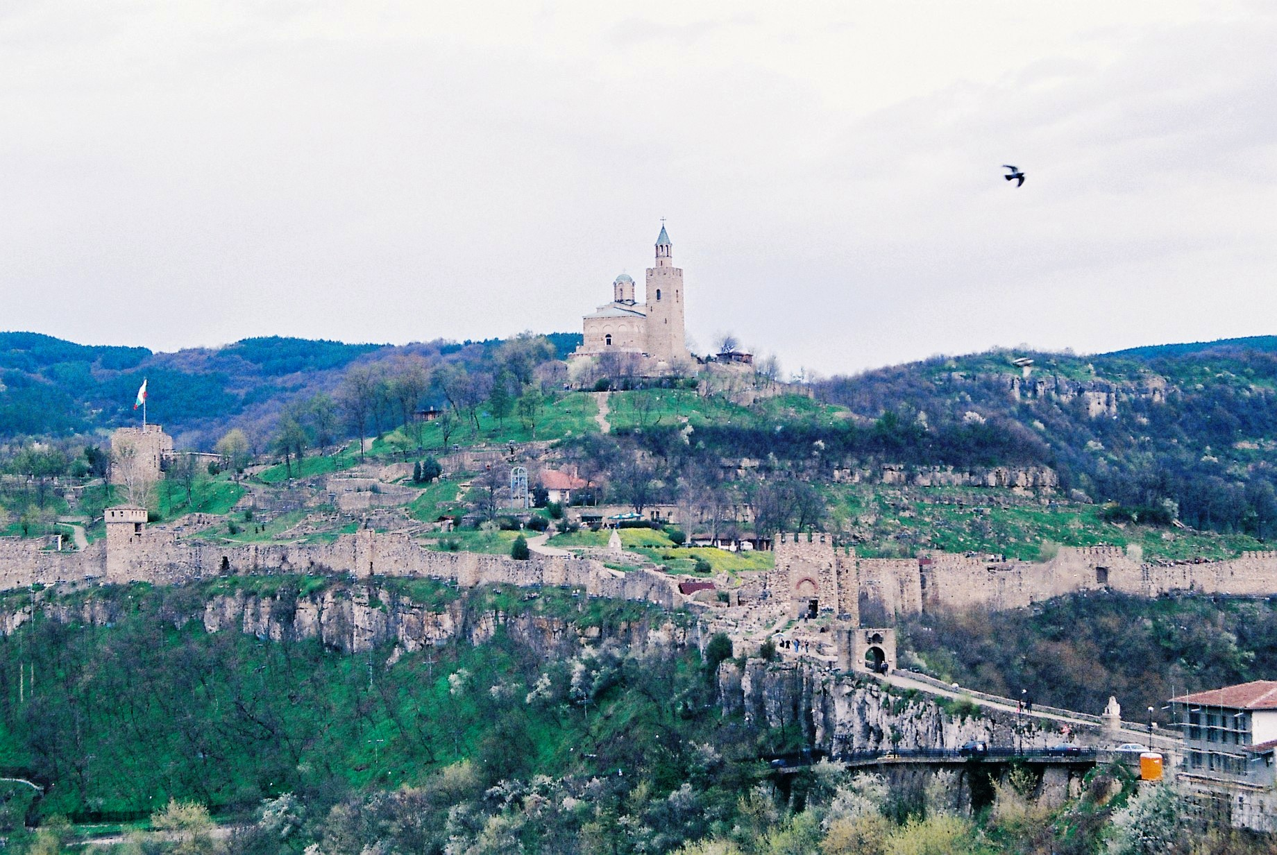 Veliko Tarnovo - view from Tsarevets